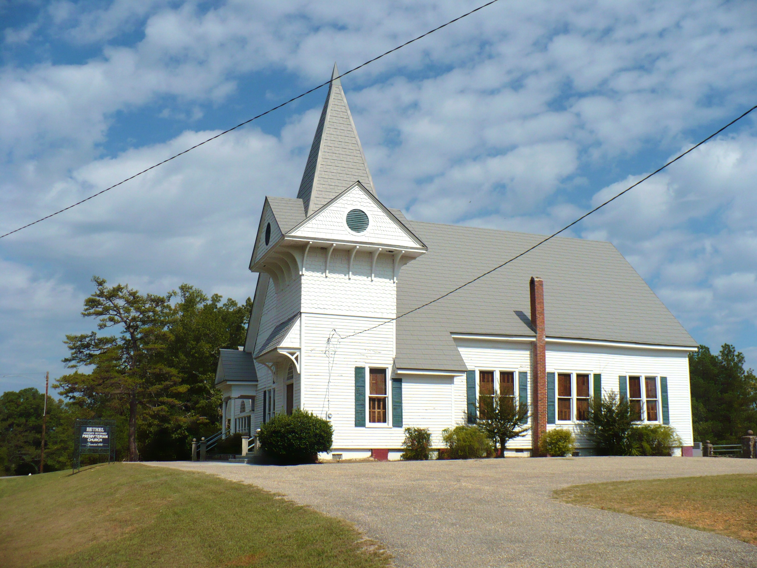 A house in Oak Hill, Wilcox County, Alabama.